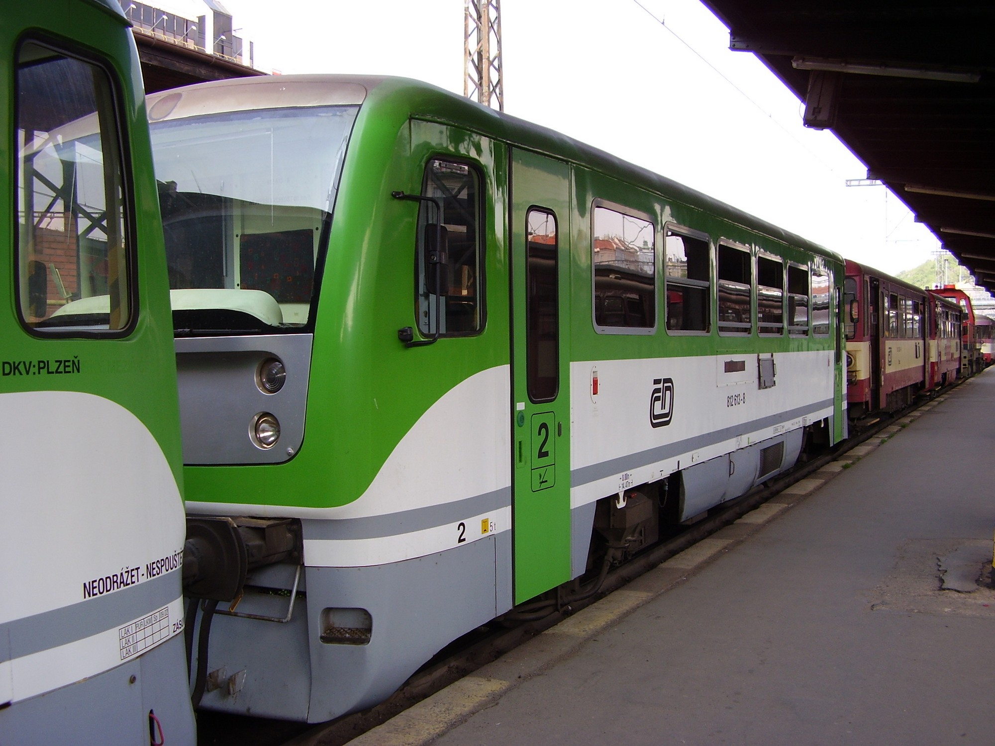 Diesel multiple unit 812 in Prague-Masarykovo nádraží